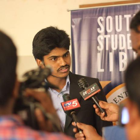 Venkatesh Geriti Addressing media at Students for Liberty Conference in Hyderabad 2015